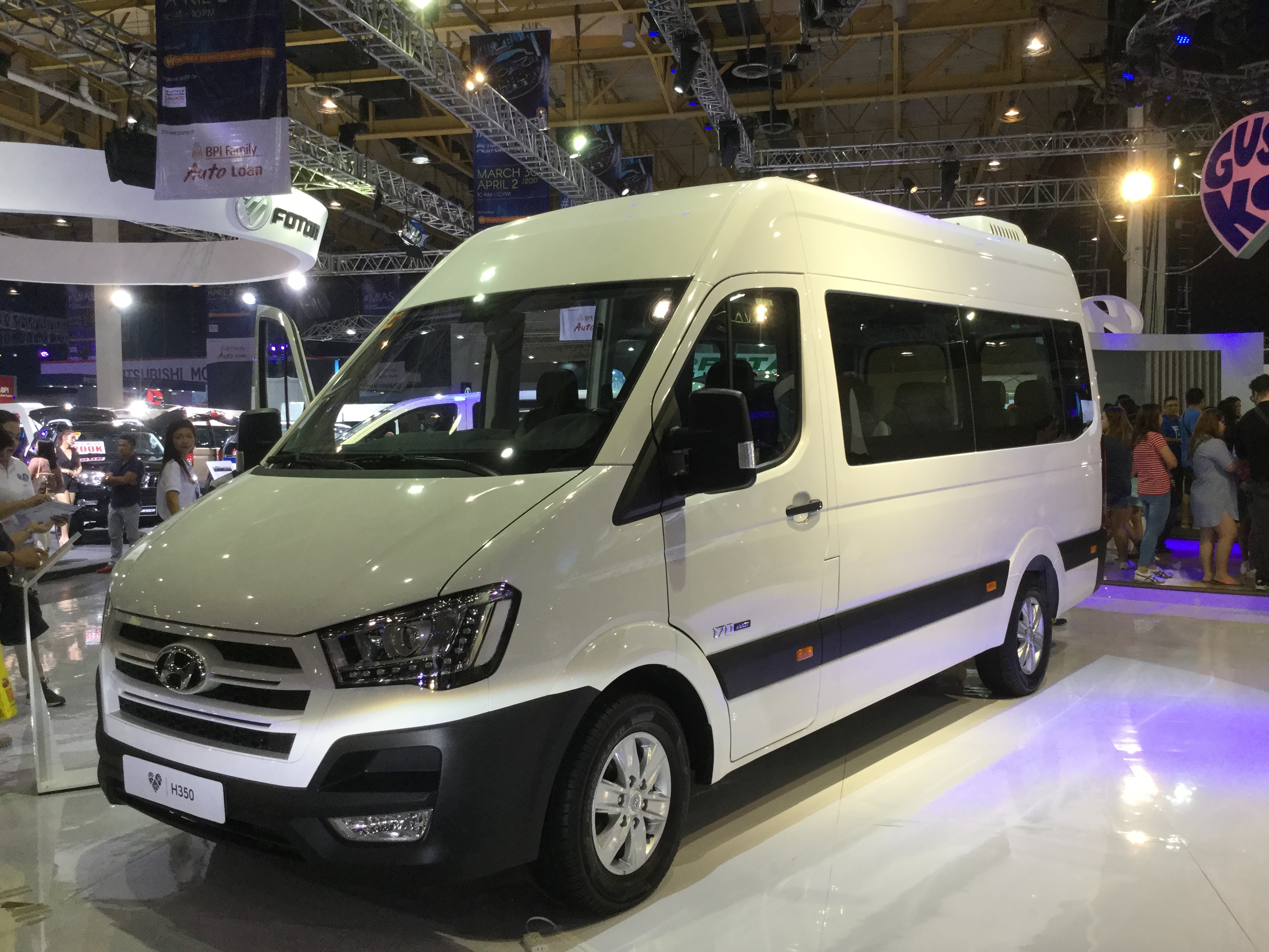 The Hyundai H350 on display at the 2017 MIAS show.